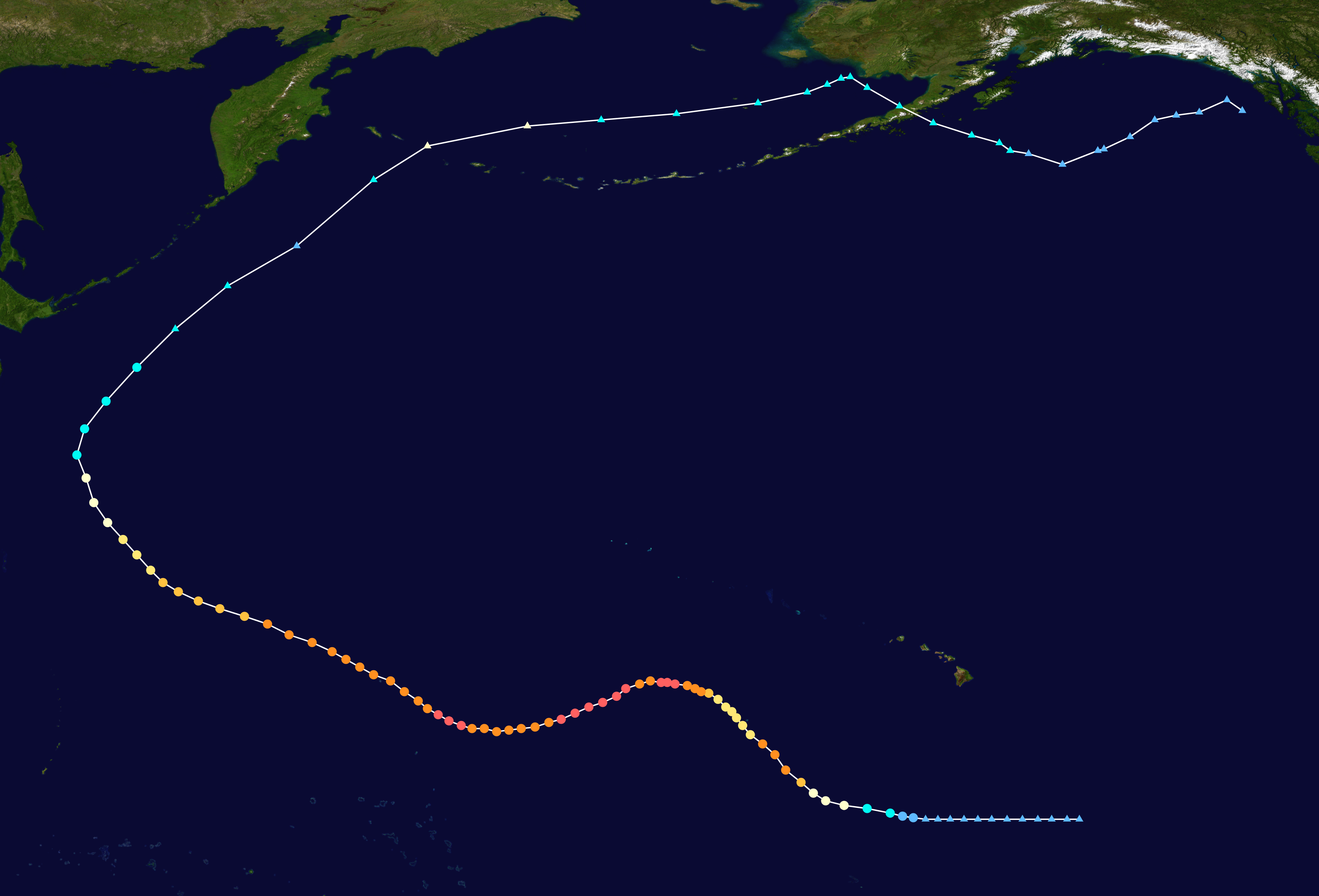 Track map of Hurricane Ioke of the 2006 Pacific hurricane season and the 2006 Pacific typhoon season. The points show the location of the storm at 6-hour intervals. The colour represents the storm's maximum sustained wind speeds as classified in the Saffir–Simpson scale (see below), and the shape of the data points represent the nature of the storm, according to the legend below. Saffir–Simpson scale Tropical depression≤38 mph≤62 km/h Category 3111–129 mph178–208 km/h Tropical storm39–73 mph63–118 km/h Category 4130–156 mph209–251 km/h Category 174–95 mph119–153 km/h Category 5≥157 mph≥252 km/h Category 296–110 mph154–177 km/h Unknown Storm type Tropical cyclone Subtropical cyclone Extratropical cyclone / Remnant low / Tropical disturbance / Monsoon depression